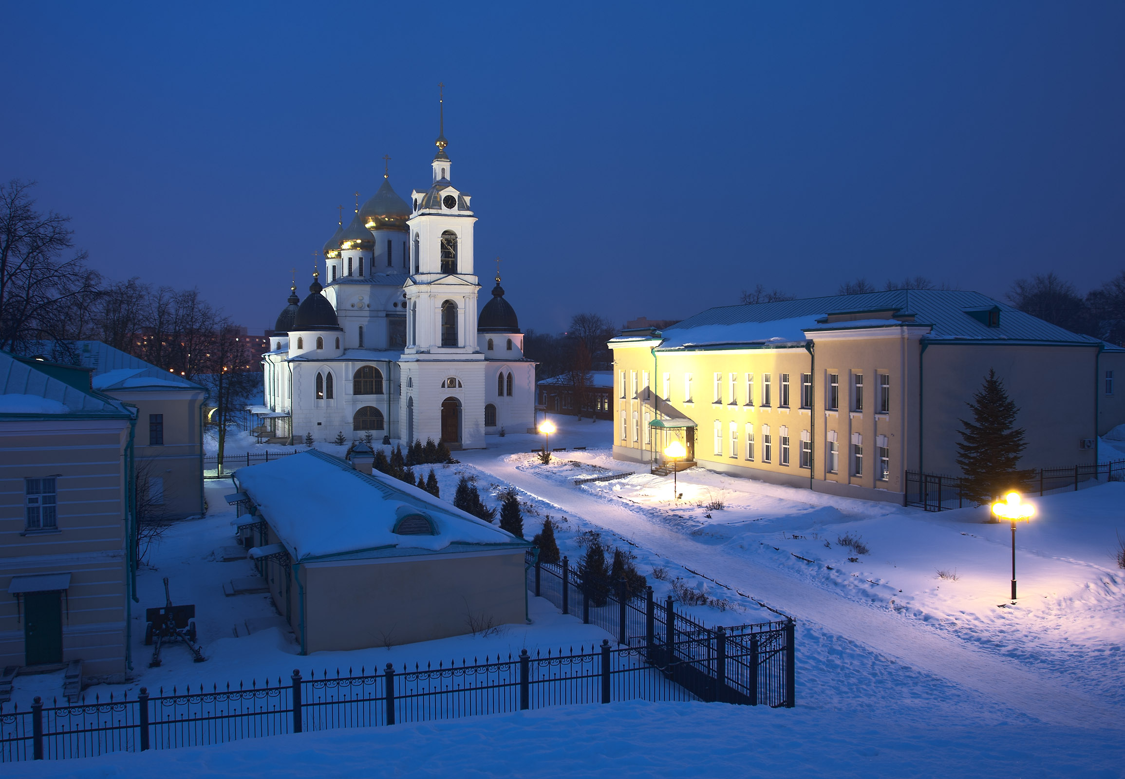 Uspensky Cathedral at night / Dmitrov, Russia